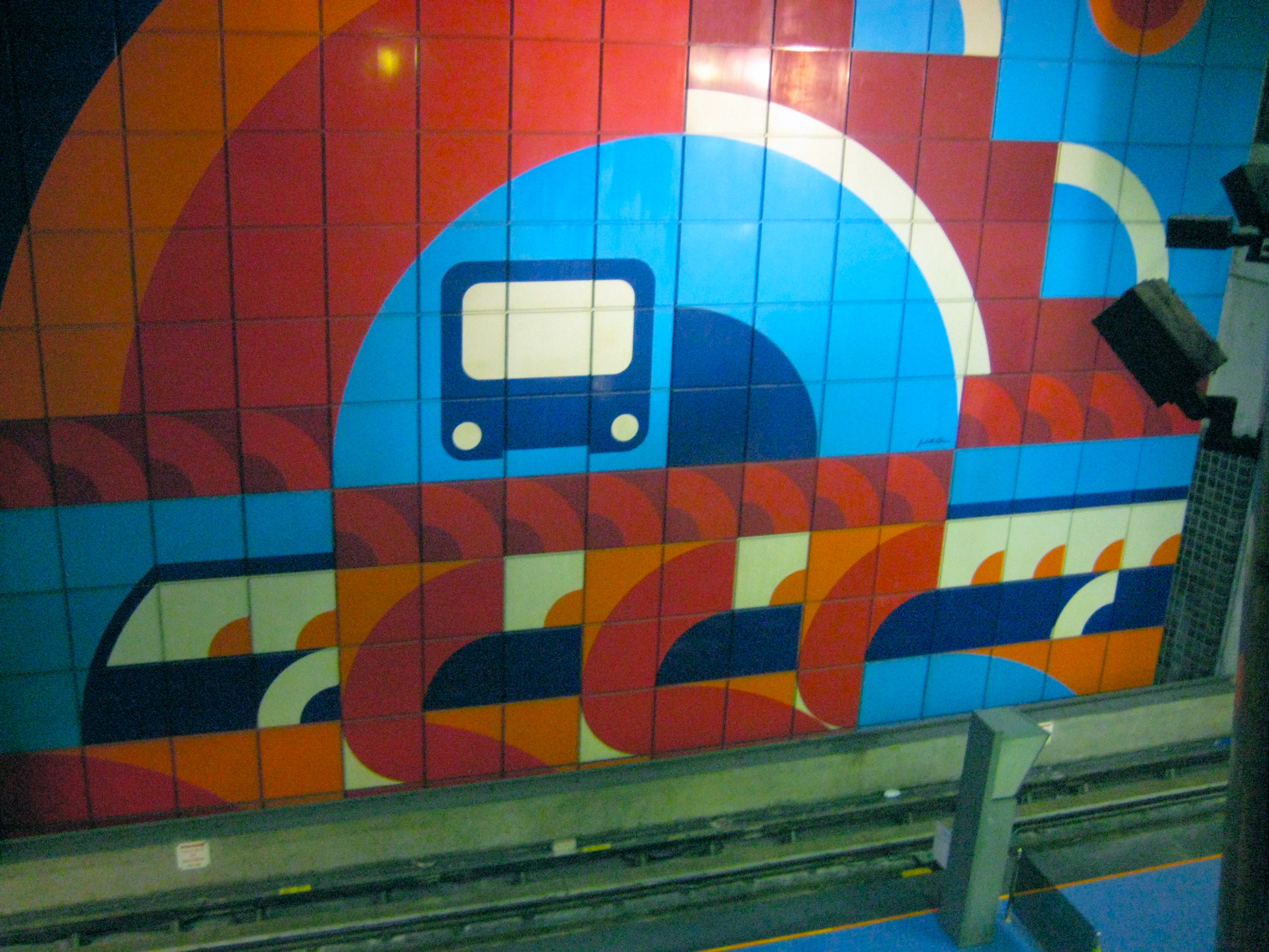 Jean-Talon Blue Line Metro station platform